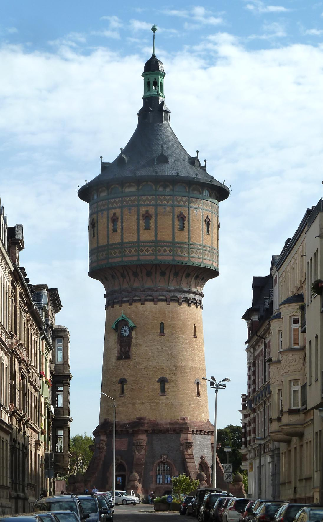 Water tower in Halle (Saale) north, built in 1897-1899, architect: Heinrich Walbe, capacity: 1.500 m³